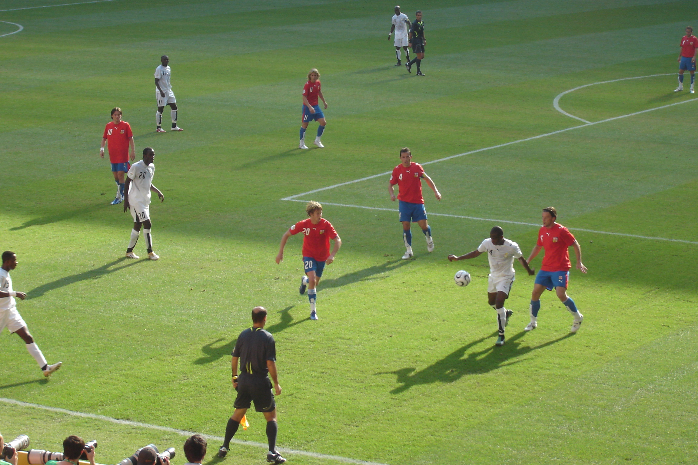 Czech Republic versus Ghana at the 2006 World Cup. Czech team (in red) from left: Tomáš Rosický (jersey # 10), Pavel Nedvěd (11), Jaroslav Plašil (20), Tomáš Galásek (4), Marek Jankulovski (6), Karel Poborský (8). Ghana team (in white) from left: unknown, Otto Addo (20), Sulley Muntari (11), Stephen Appiah (10), Matthew Amoah (14)